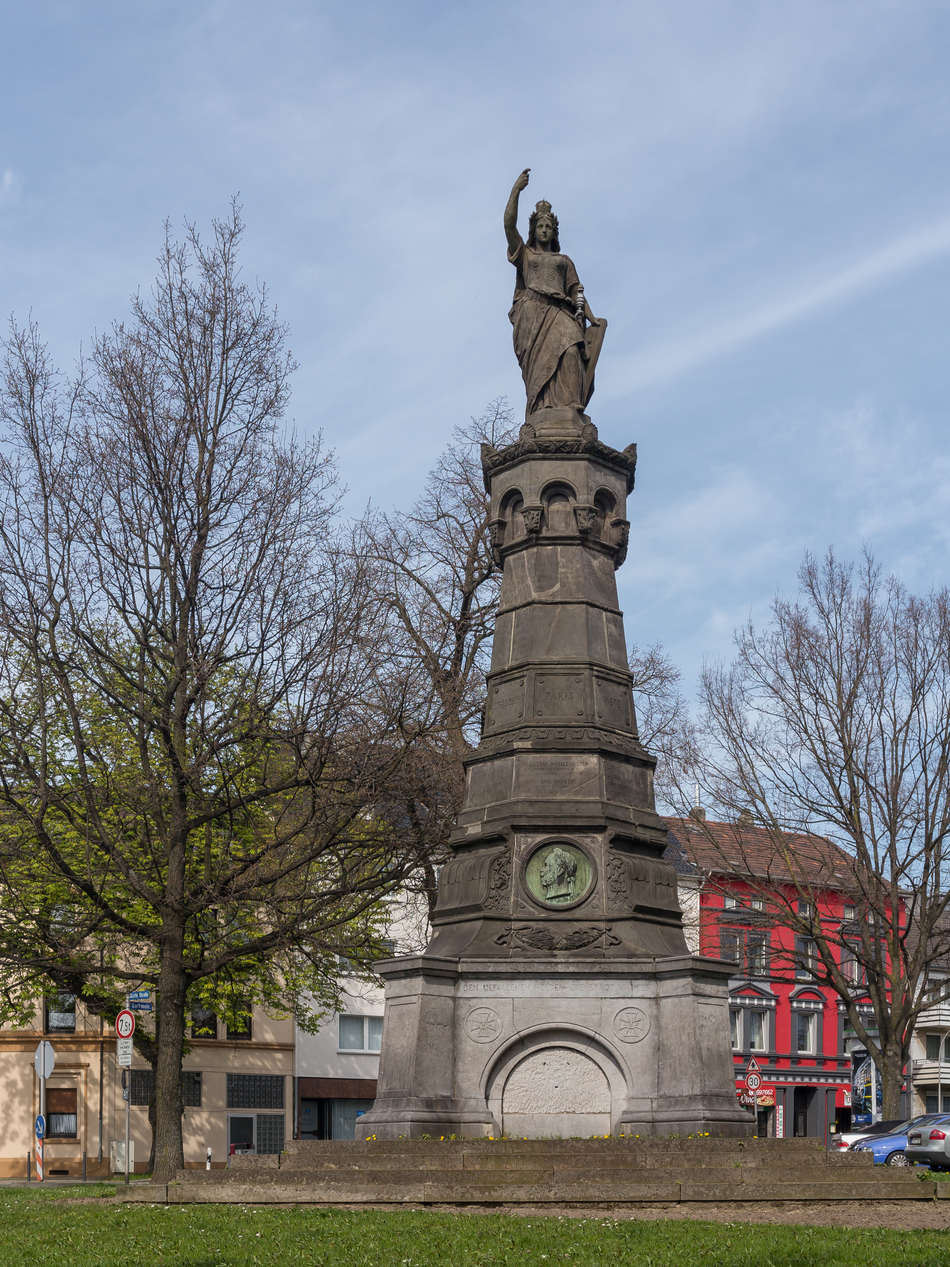 War memorial Kriegerdenkmal Germania on square Karl-Marx-Platz in Witten, Germany